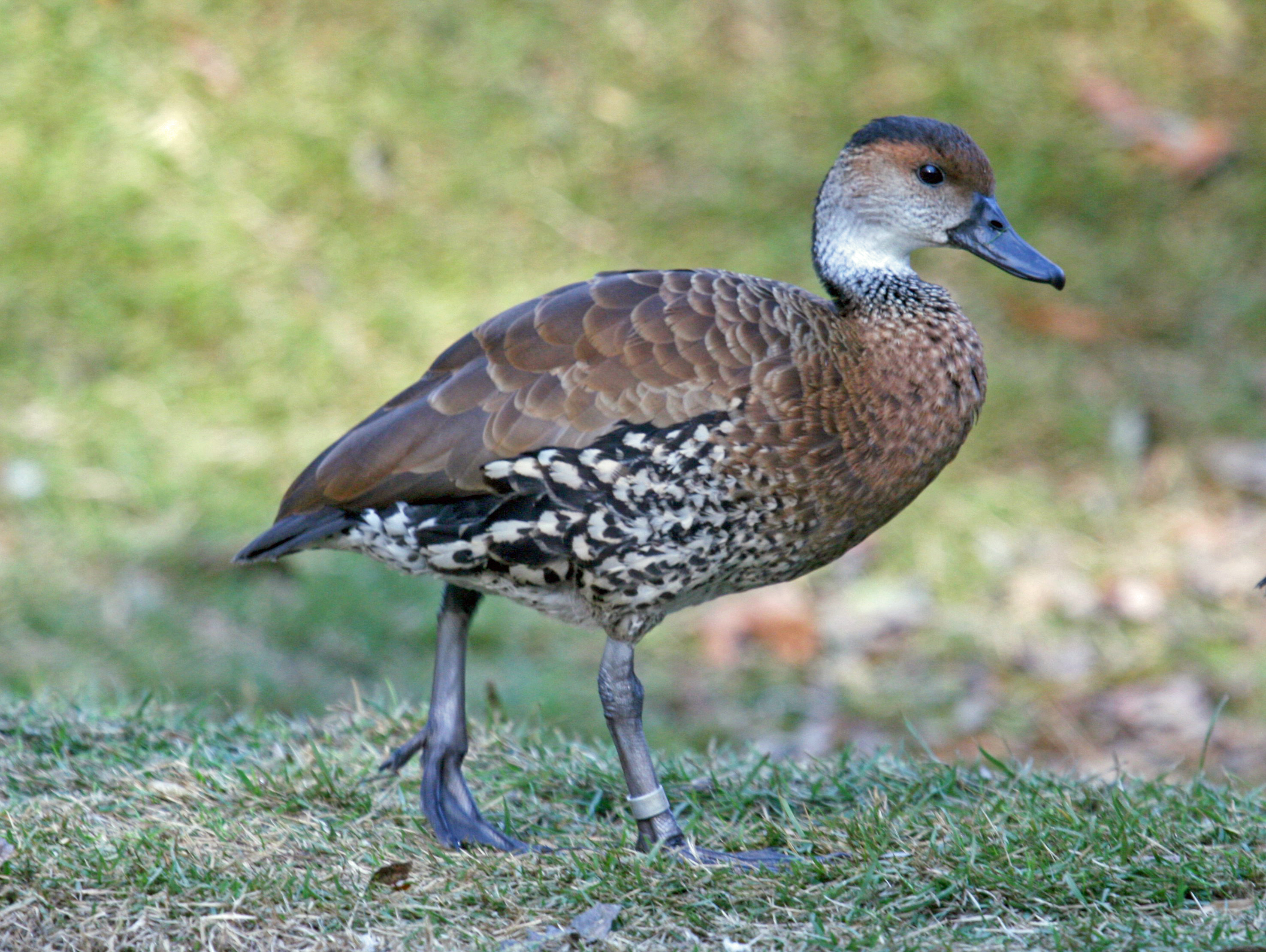 West Indian Whistling-Duck (Dendrocygna arborea) at Sylvan Heights Waterfowl Park in Scotland Neck, North Carolina.